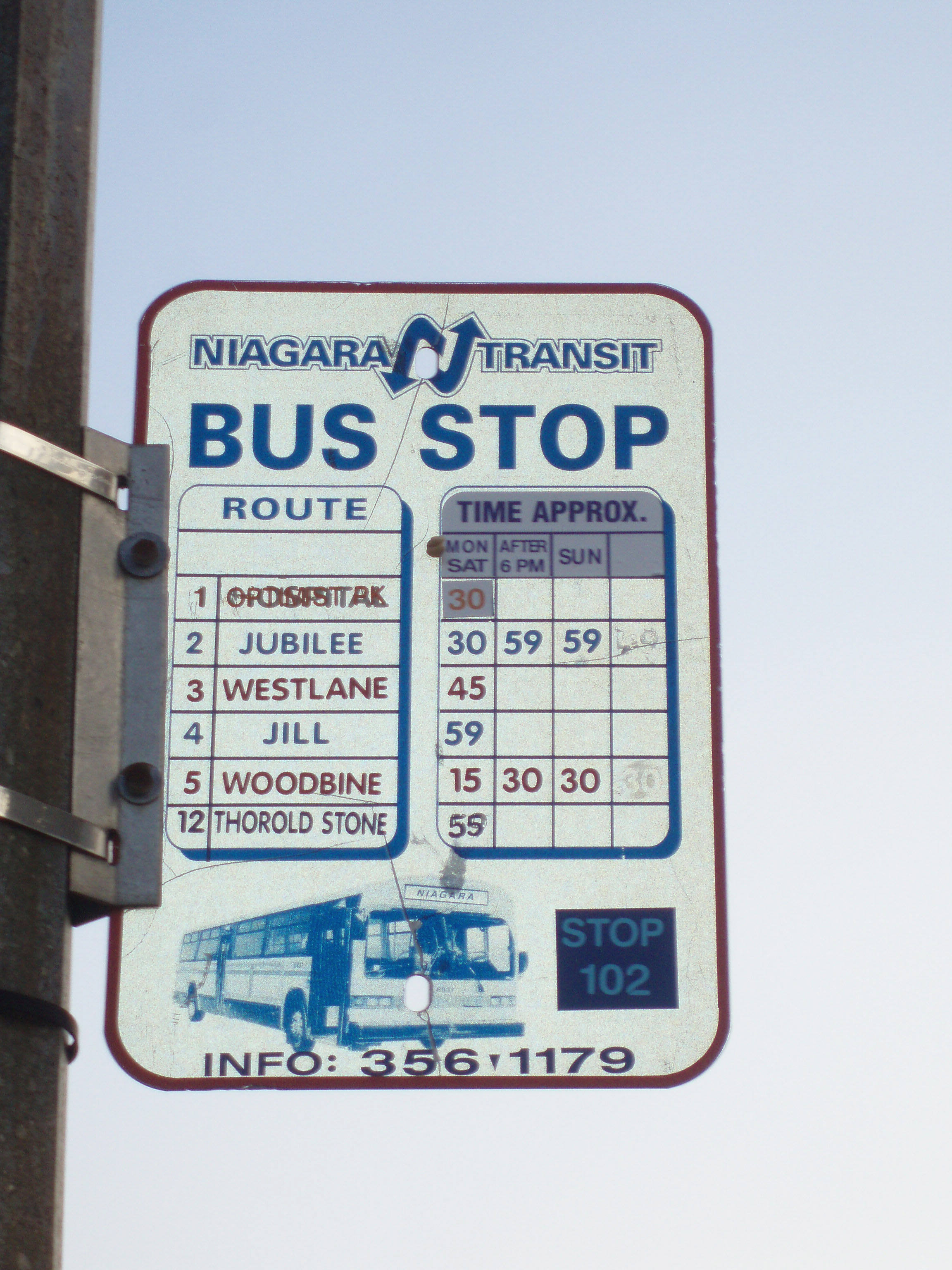 Niagara Transit bus stop 102 sign, on Erie Street, right outside Niagara Falls Transit Terminal.